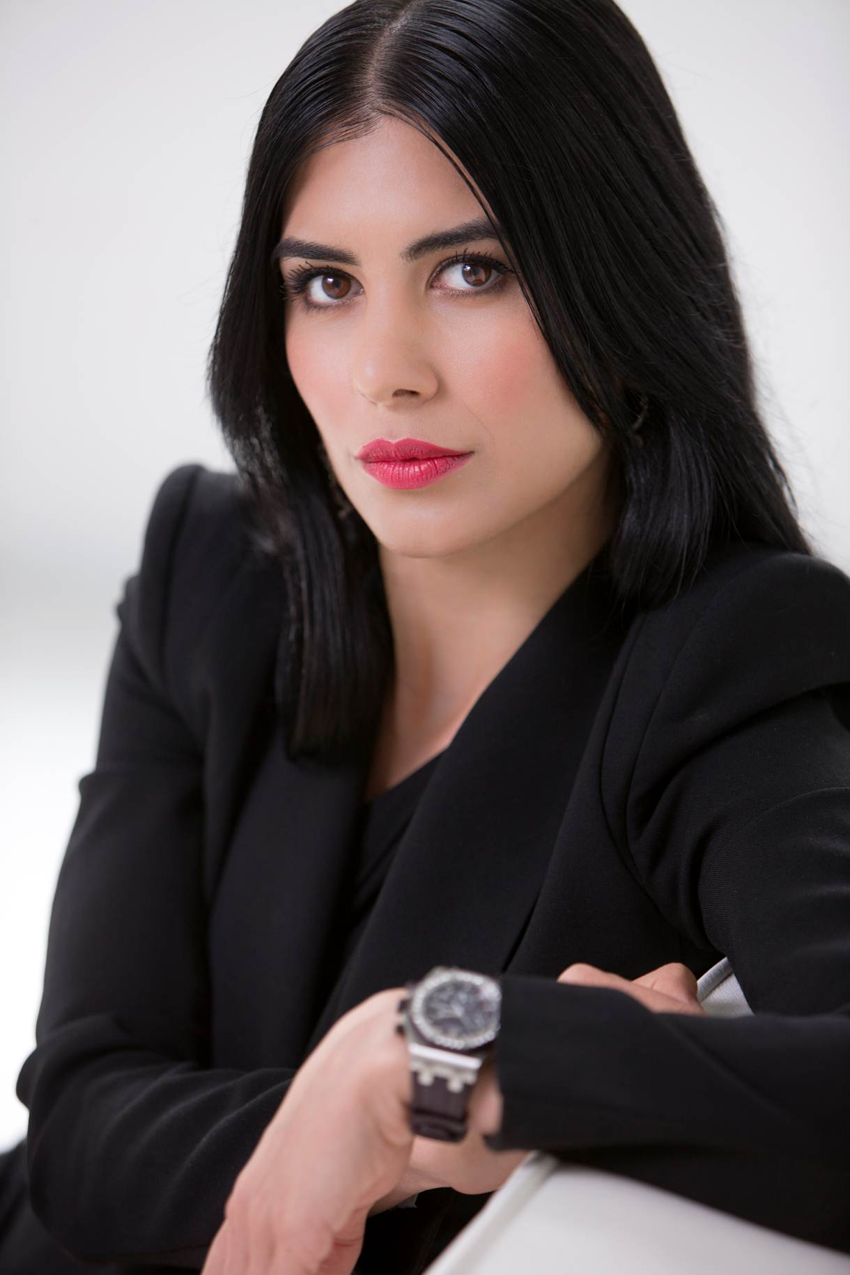 Shahrzad Rafati - CEO and Founder of BroadbandTV